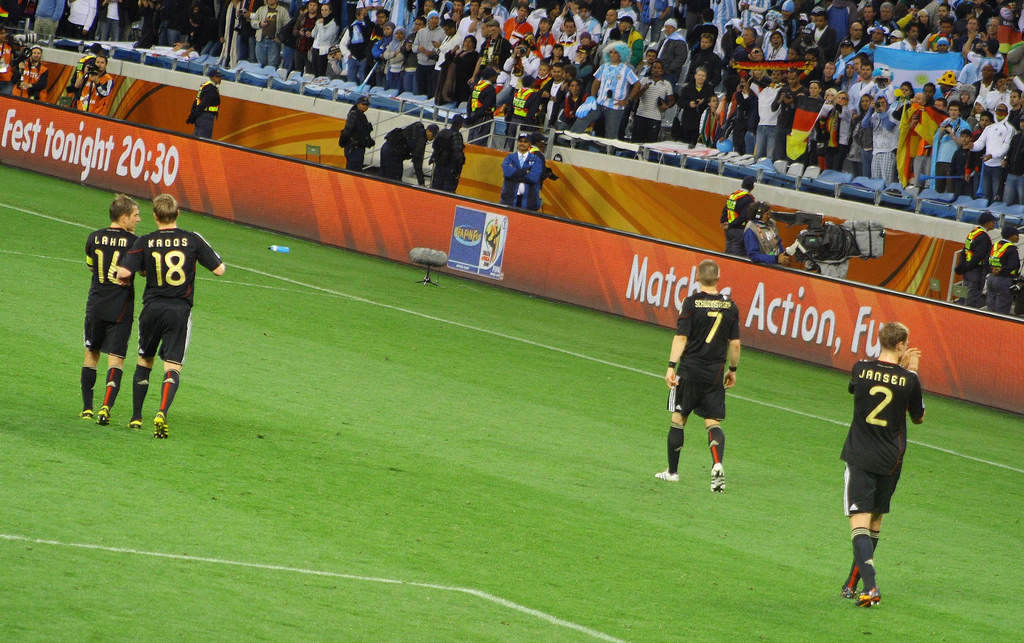 German Football Team